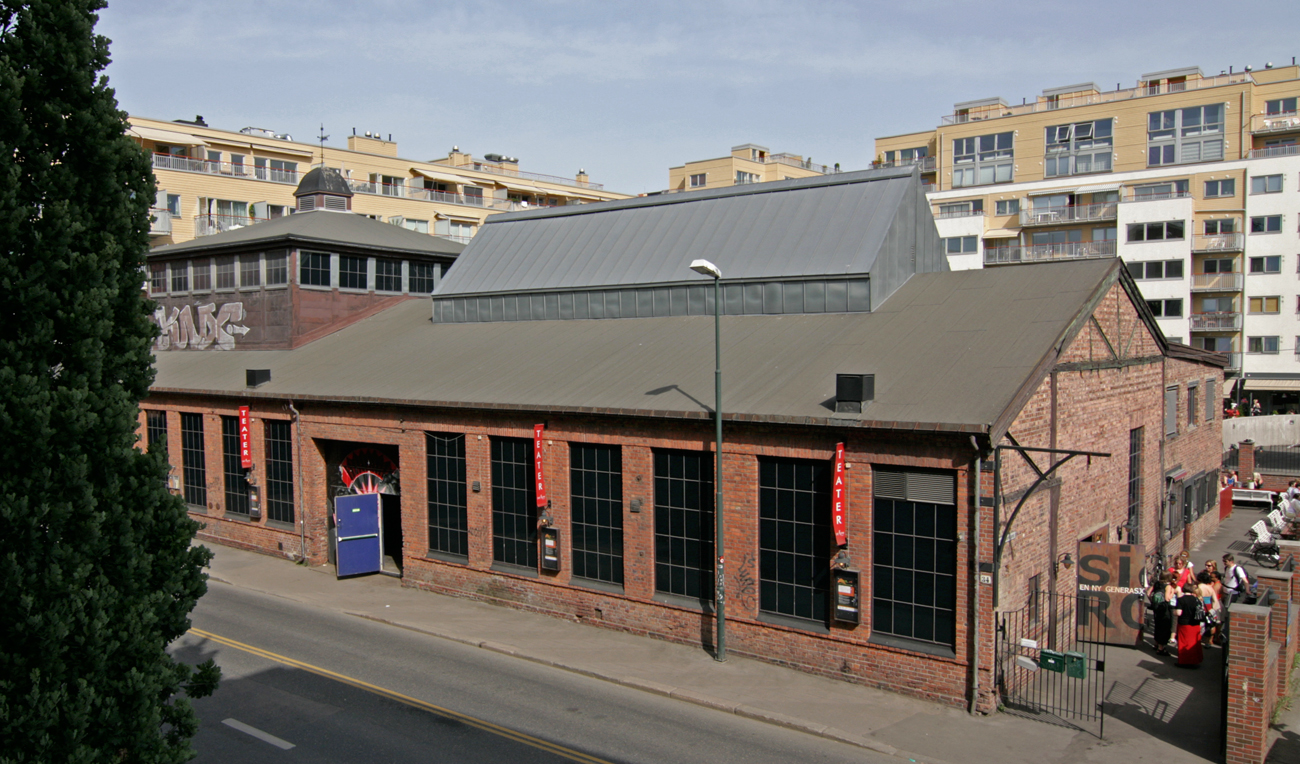 Tøyenbekken 34, Oslo. Built as smithy 1880. Now: theater.